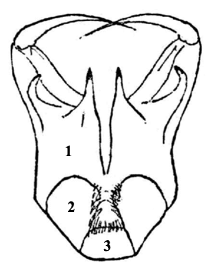 Diagram of the mouthparts of a male Zygoballus sexpunctatus jumping spider (ventral view). 1 = chelicerae; 2 = maxillae; 3 = labium.